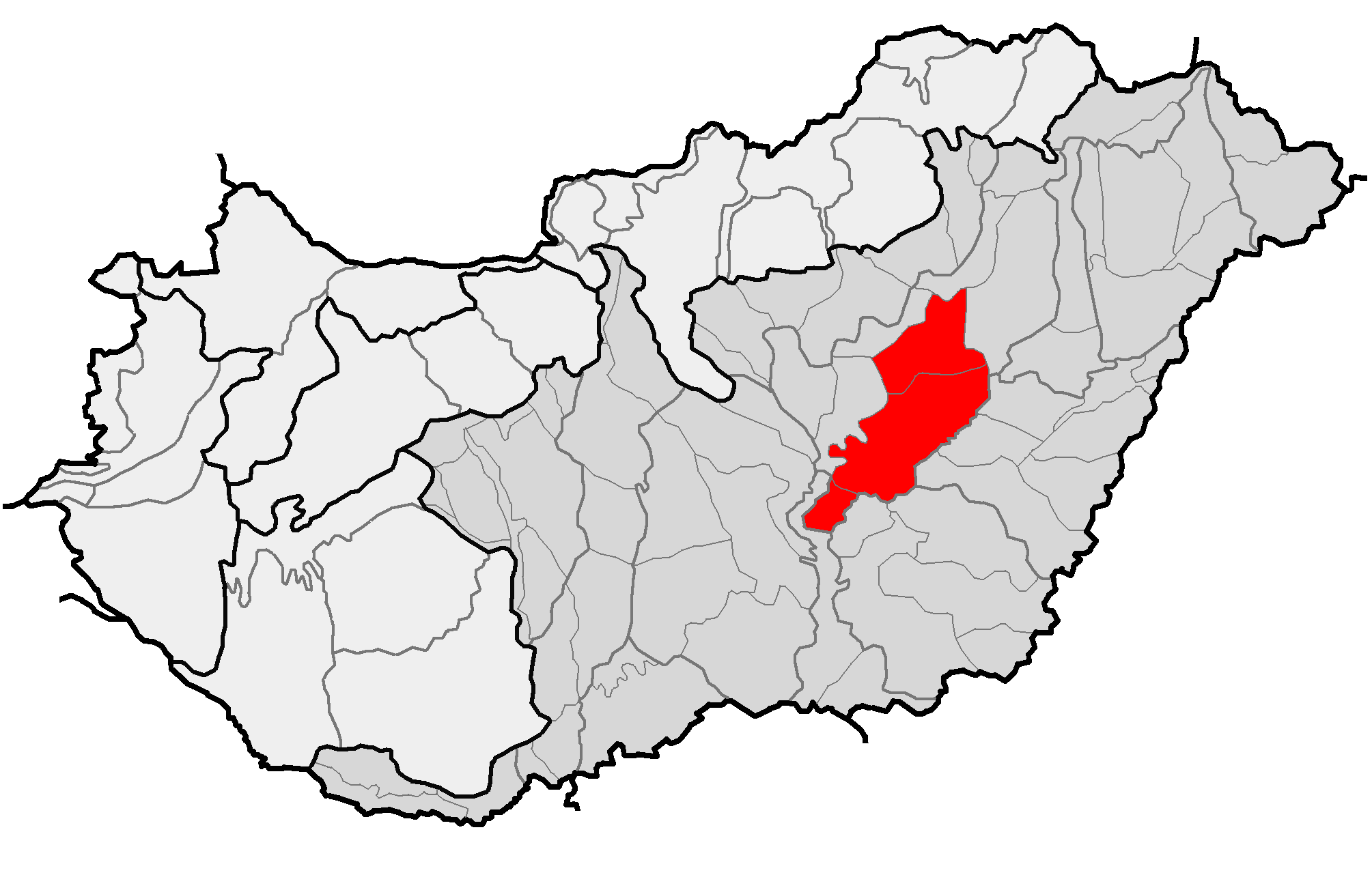 Location of geographical subregion of Nagykunság (red) and macroregion of Alföld (gray) within subdivisions of Hungary.